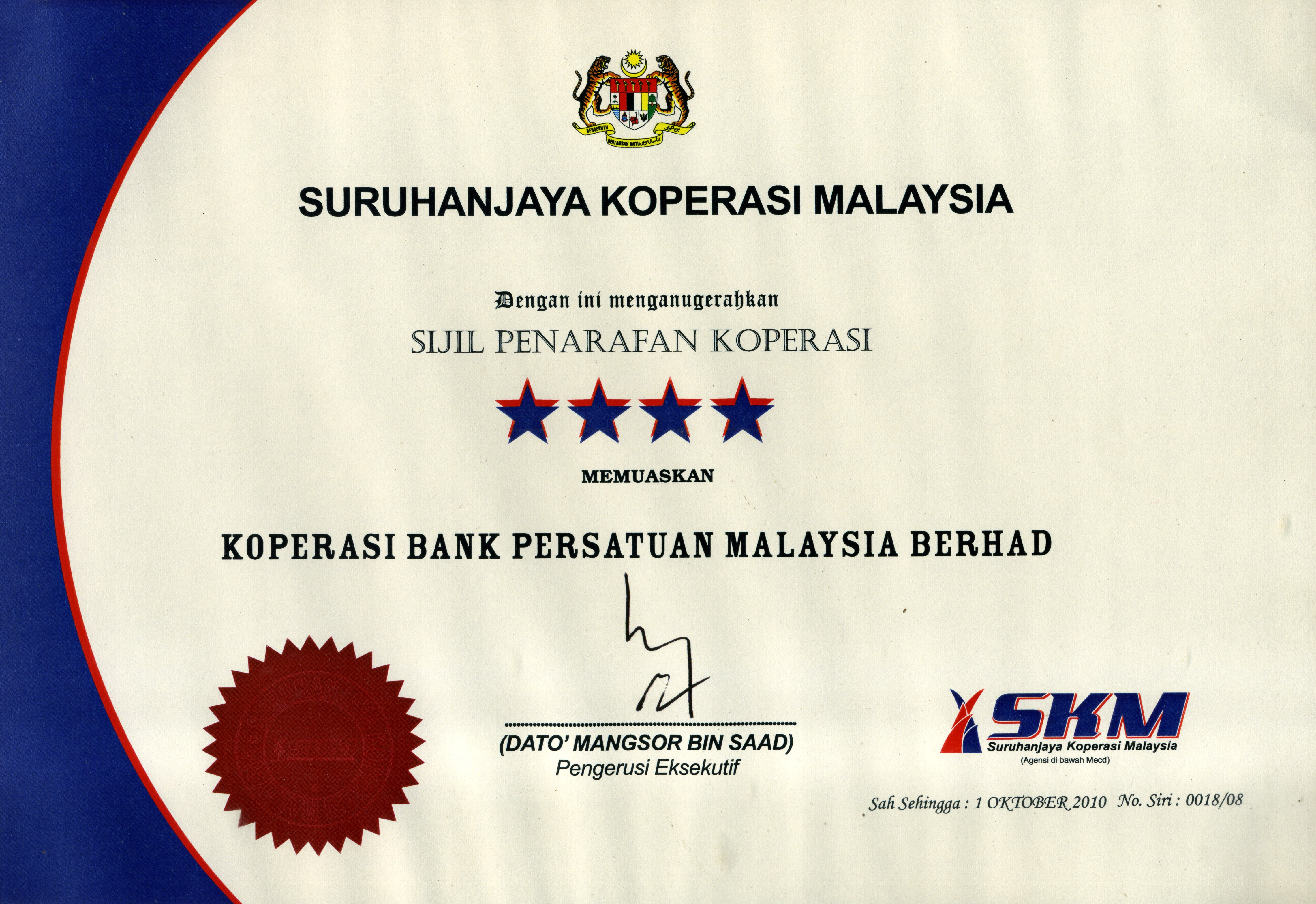 Co-operative Standards Certificate given by Suruhanjaya Koperasi Malaysia (SKM) as recognition to Bank Persatuan's performance.